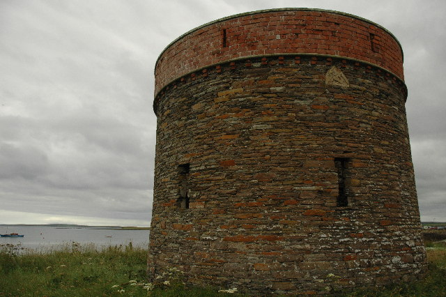 Shapinsay Gas House, Orkney Islands All that remains of former gas works which dates from the mid l9th century.